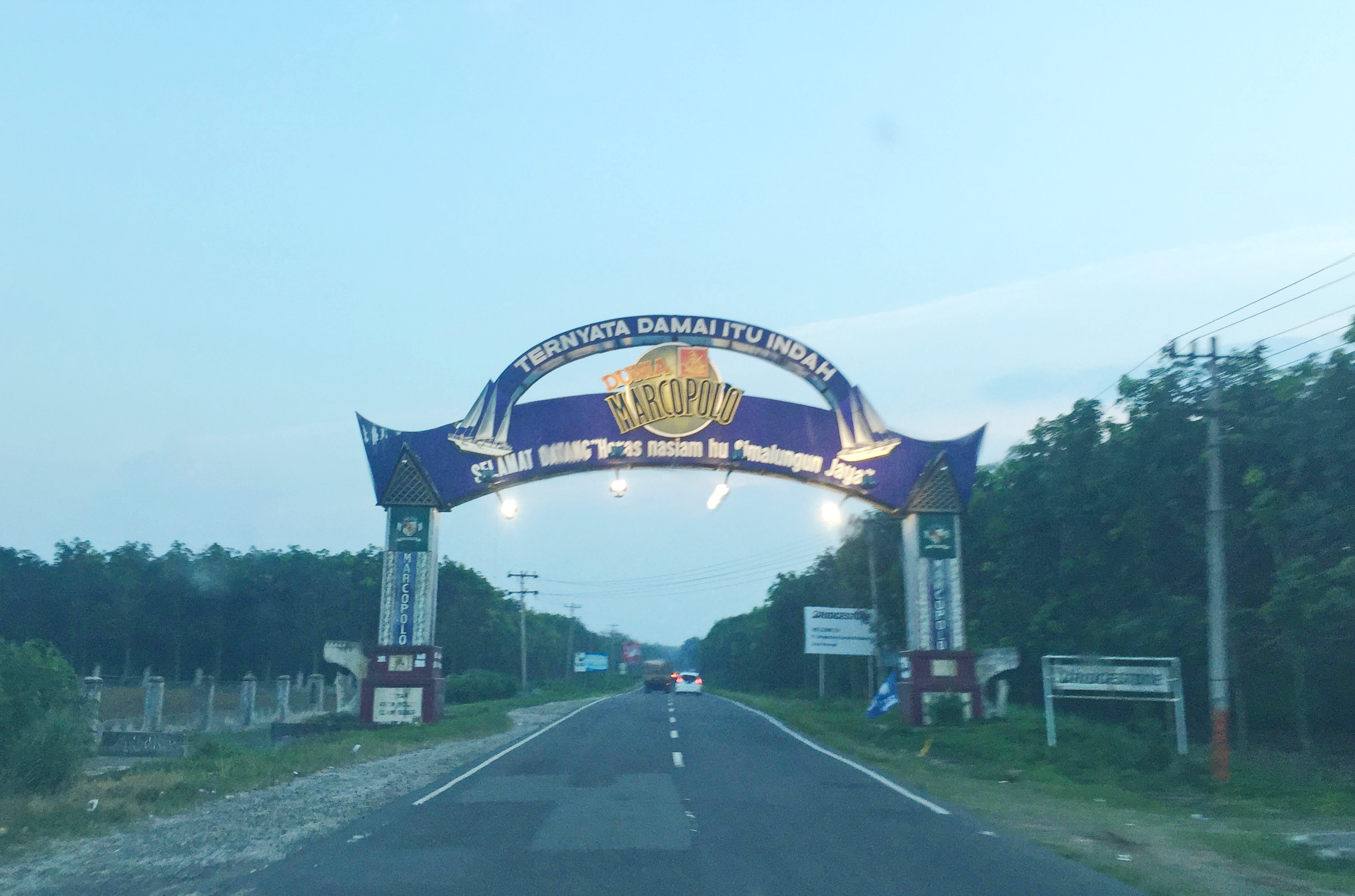 welcome gate to Simalungun regency